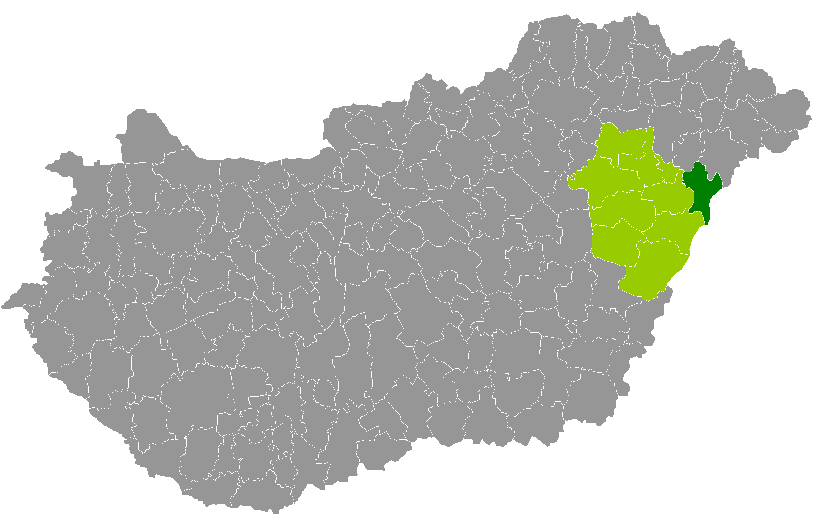 Location of Nyíradony District, Hajdú-Bihar, Hungary